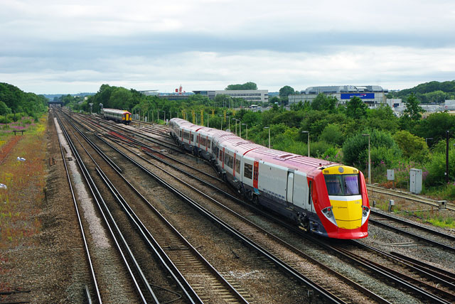 Gatwick Express enters sidings, Gatwick